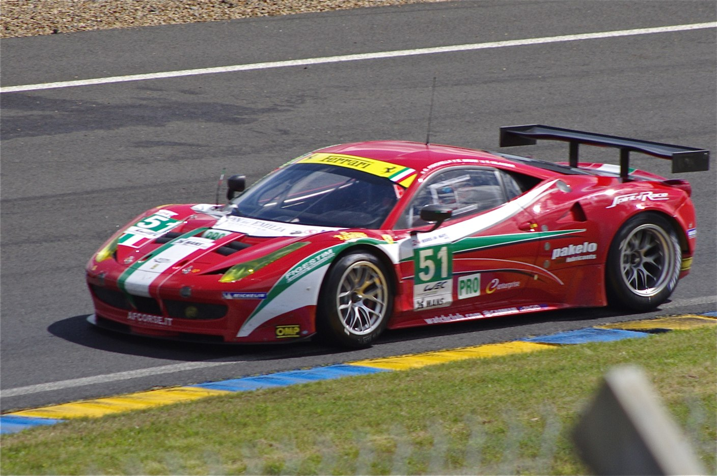 LMGTE Pro class winner, Le Mans 24 Hours 2012